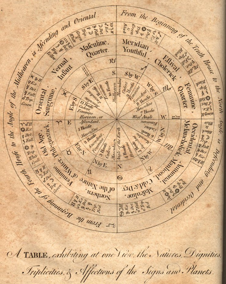 A table showing the zodiacal signs and their gender, triplicities, and quadruplicities, and essential dignities; houses and their gender and locational status. A caption reads, "A TABLE exhibiting at one View the Natures, Dignities, Triplicities and Affections of the Signs and Planets."